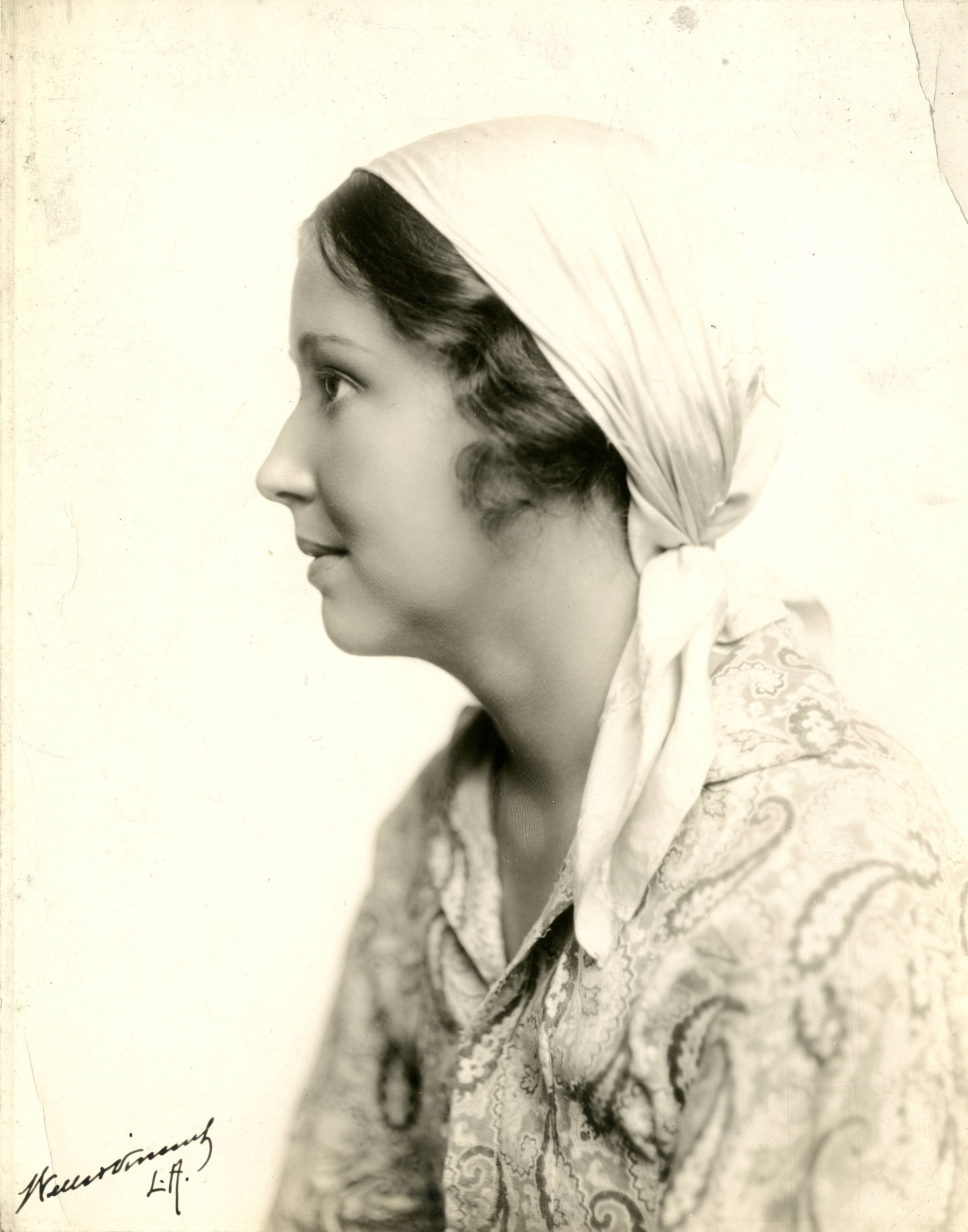 Stage and film actress Helen Jerome Eddy. Subjects: actresses